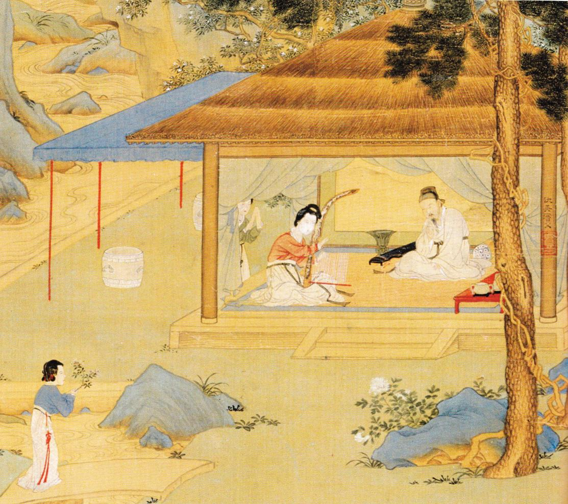 Detail of a Ming Dynasty painting by Qiu Ying, showing a woman playing konghou, early 16th century.